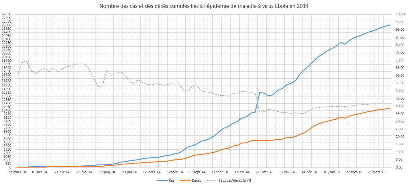 Number of cumulative cases and deaths of the 2014 Ebola outbreak, with mortality shown in dotted line (percent deaths of cases)